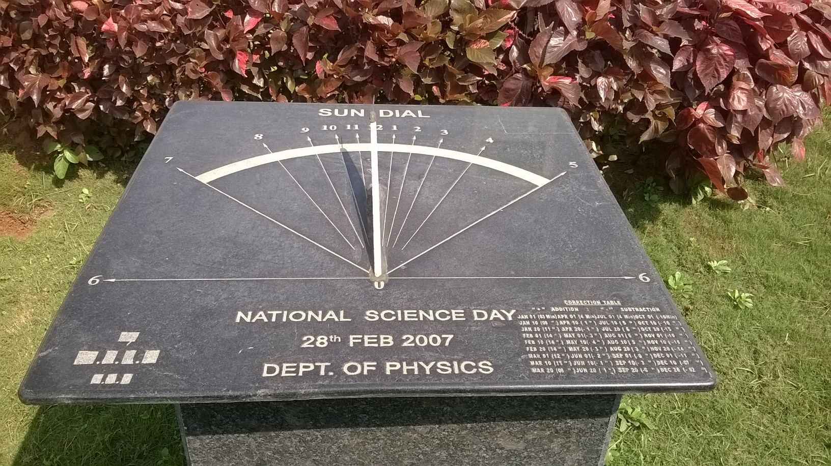 Sundial in KBN College